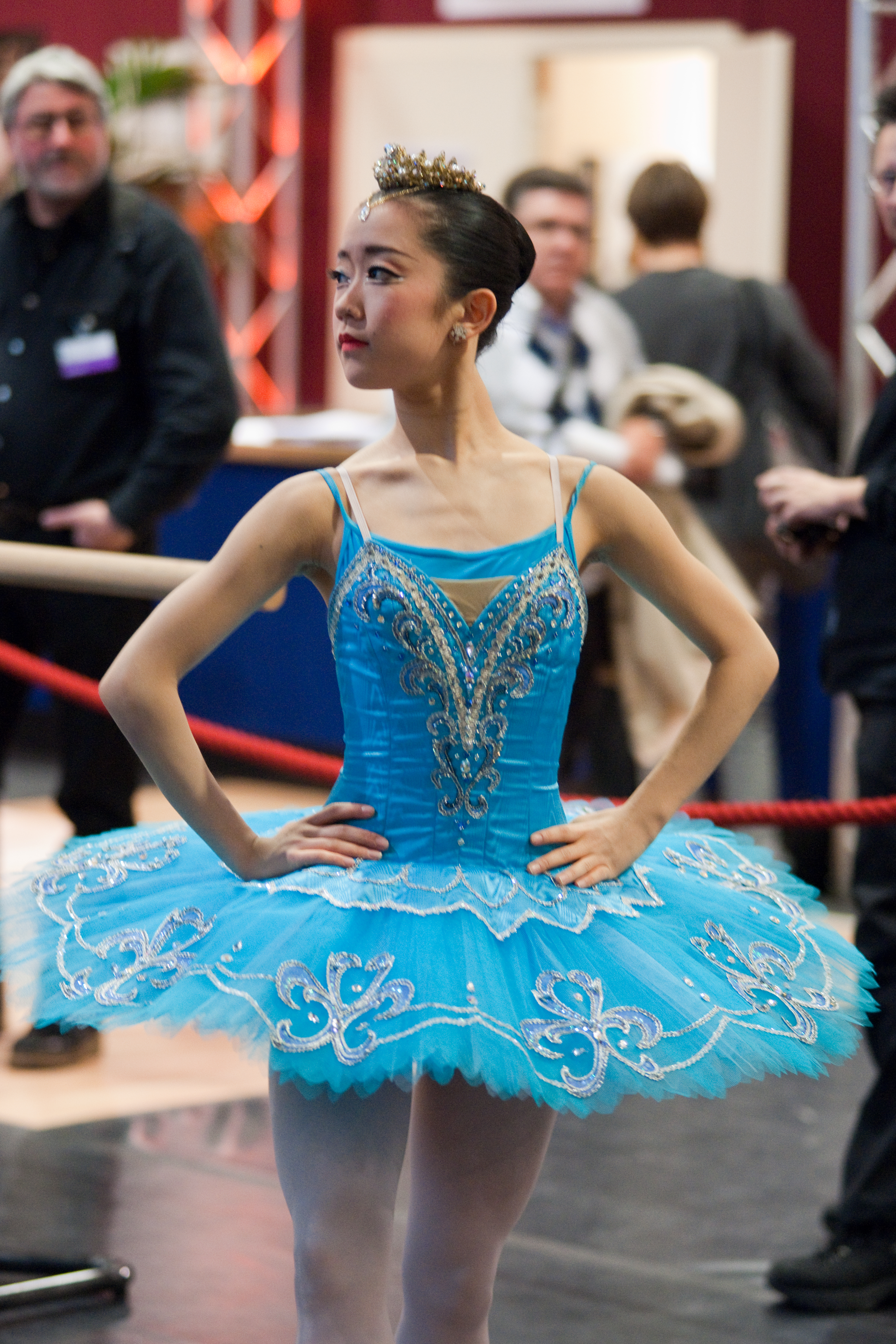 The making of this document was supported by Wikimedia CH. (Submit your project!) For all the files concerned, please see the category Supported by Wikimedia CH.